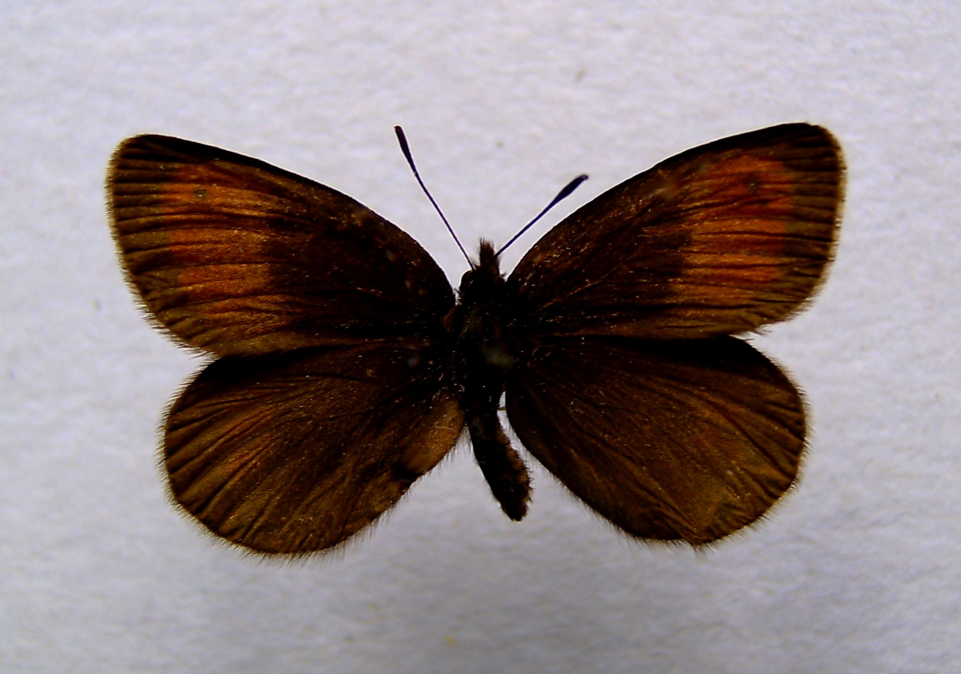 Erebia gorge